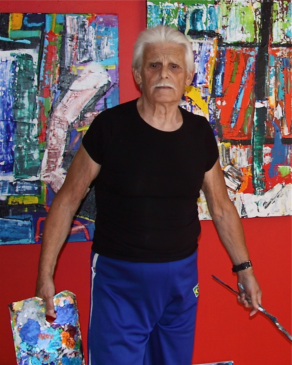 Zbigniew Kupczynski in his Vancouver Studio. Photo by Eva Kupczynski.